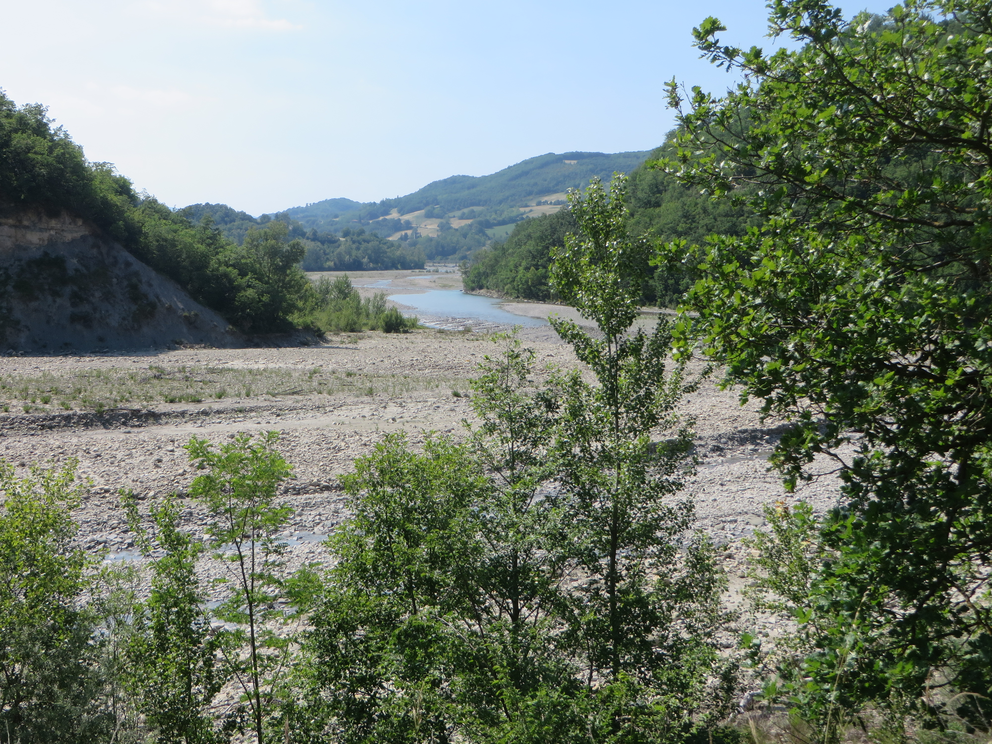 Pessola creek mouth